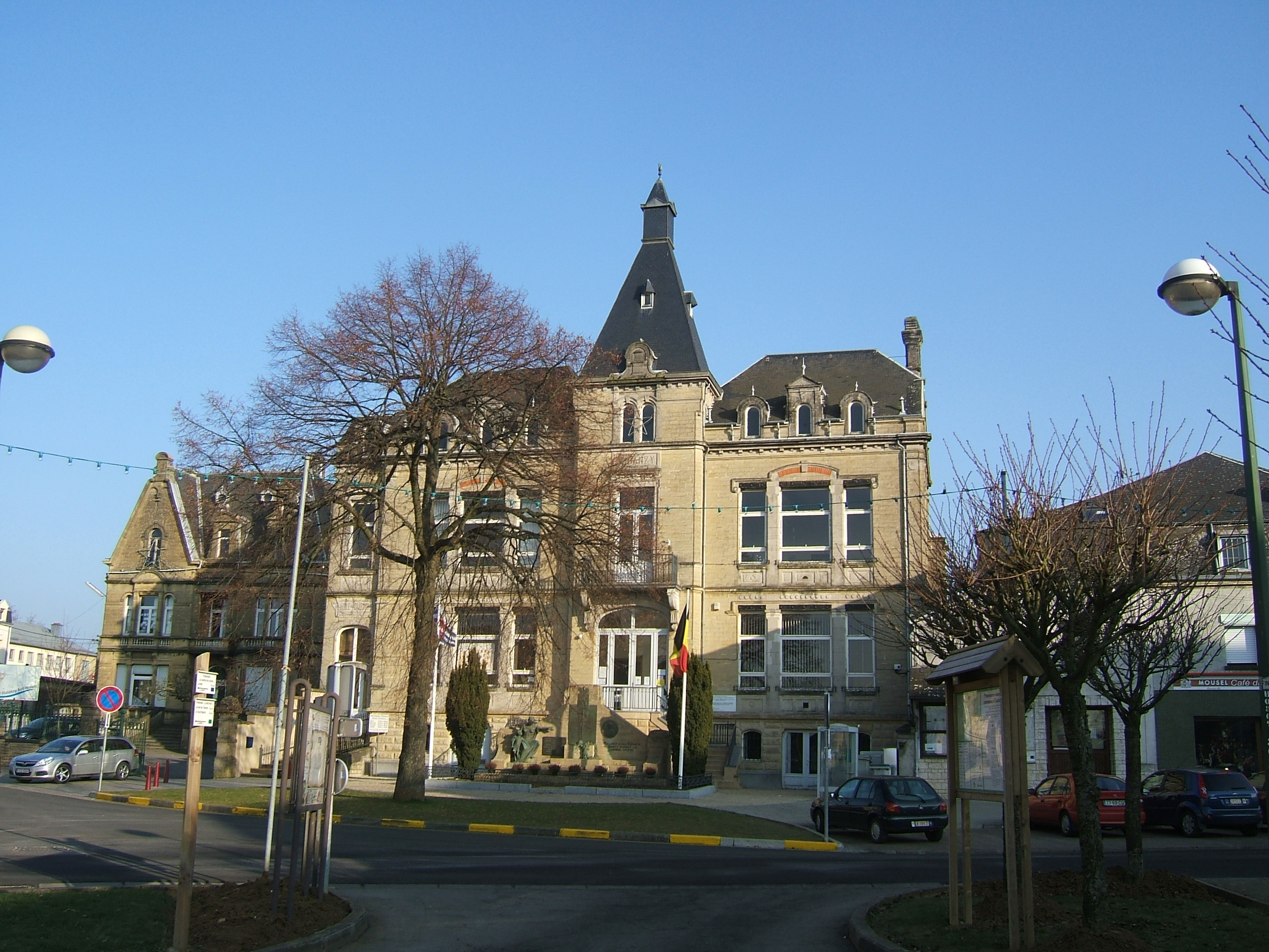 Halanzy former city hall, Aubange, Belgium